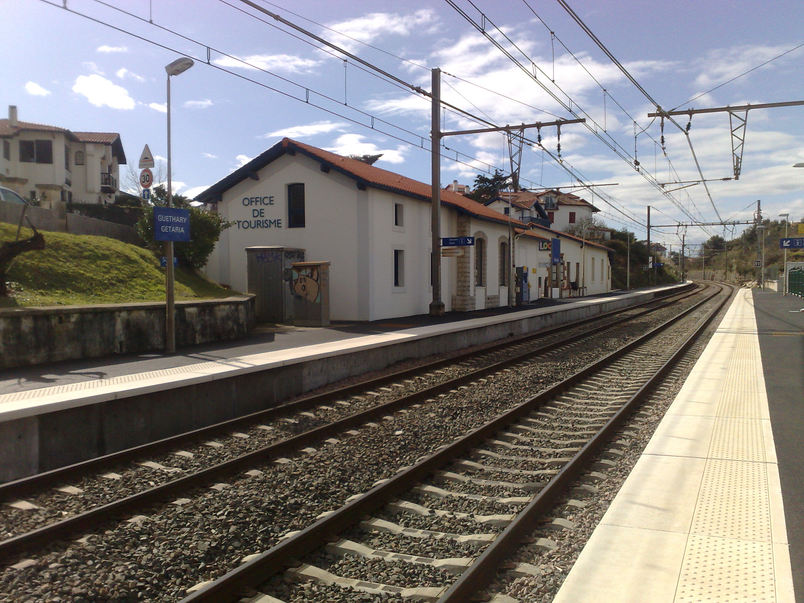 Getaria / Guéthary train station, Getaria, Lapurdi /Labourd, Basque Country.